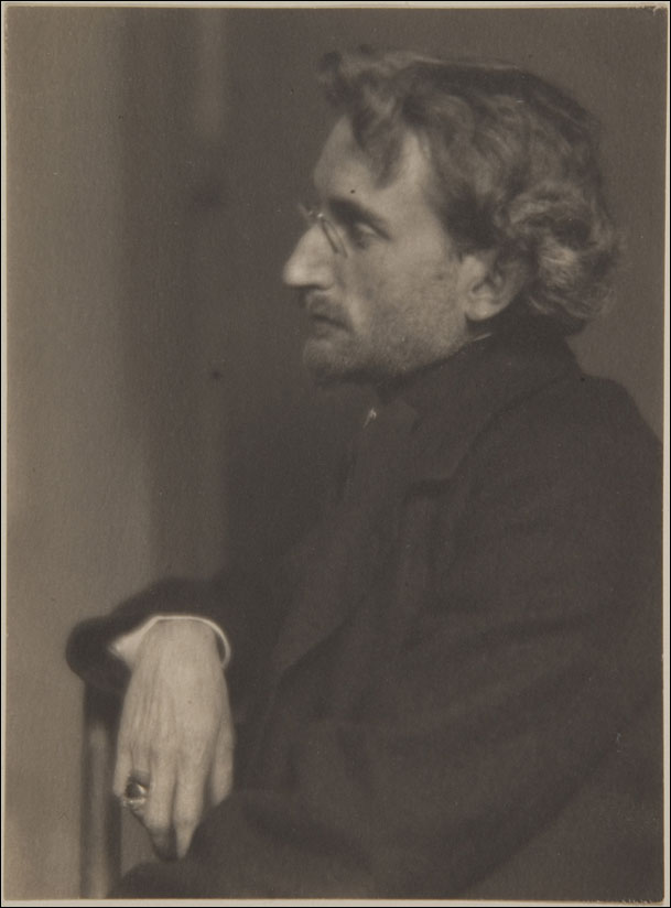 Portrait of Fred Holland Day (c. 1900) by Reginald W. Craigie, platinum print